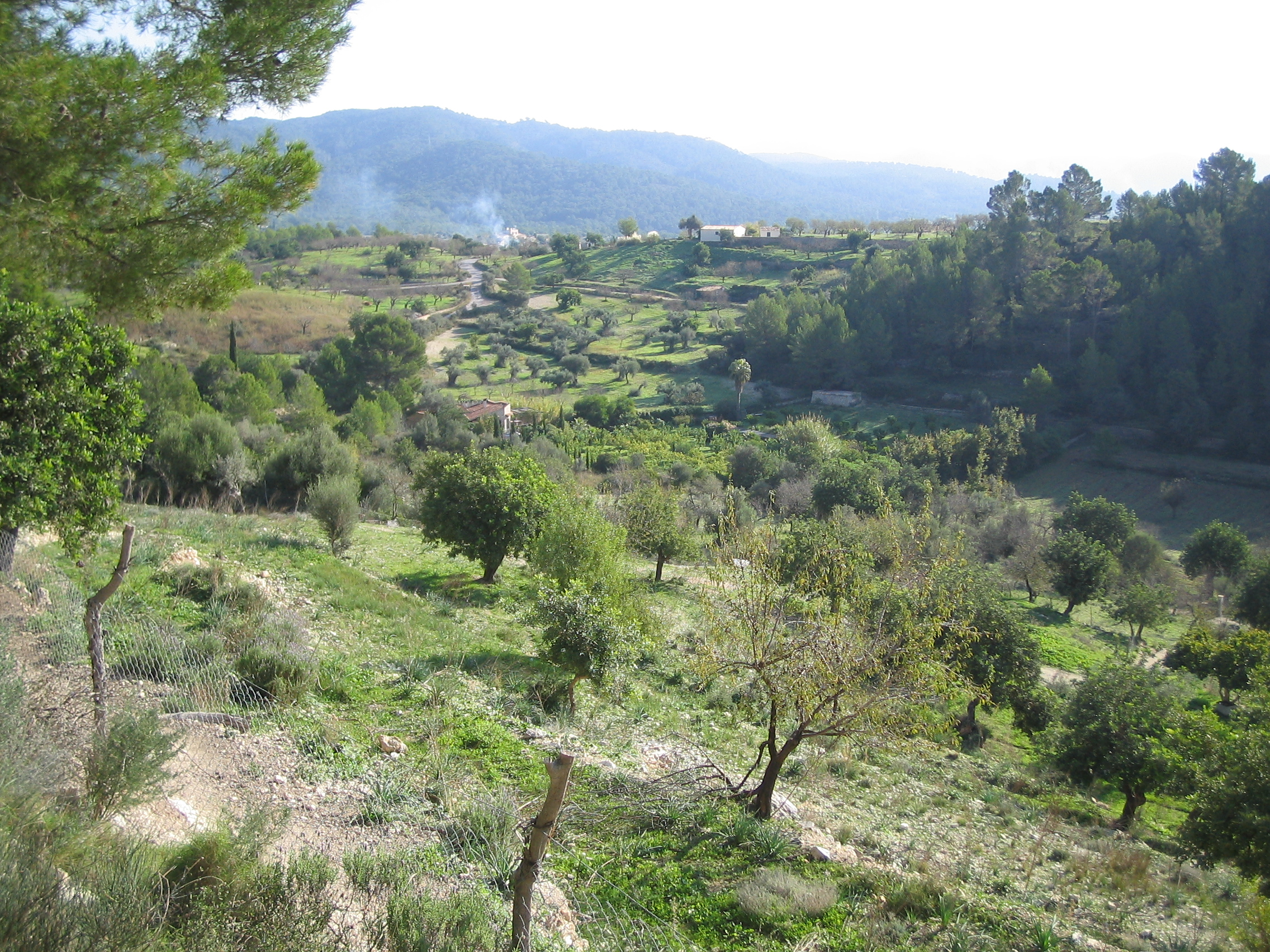 A spanish county familiarly known as Comarca del Pariatge (surroundings of calvià villa) located in Palma de Mallorca, Spain.